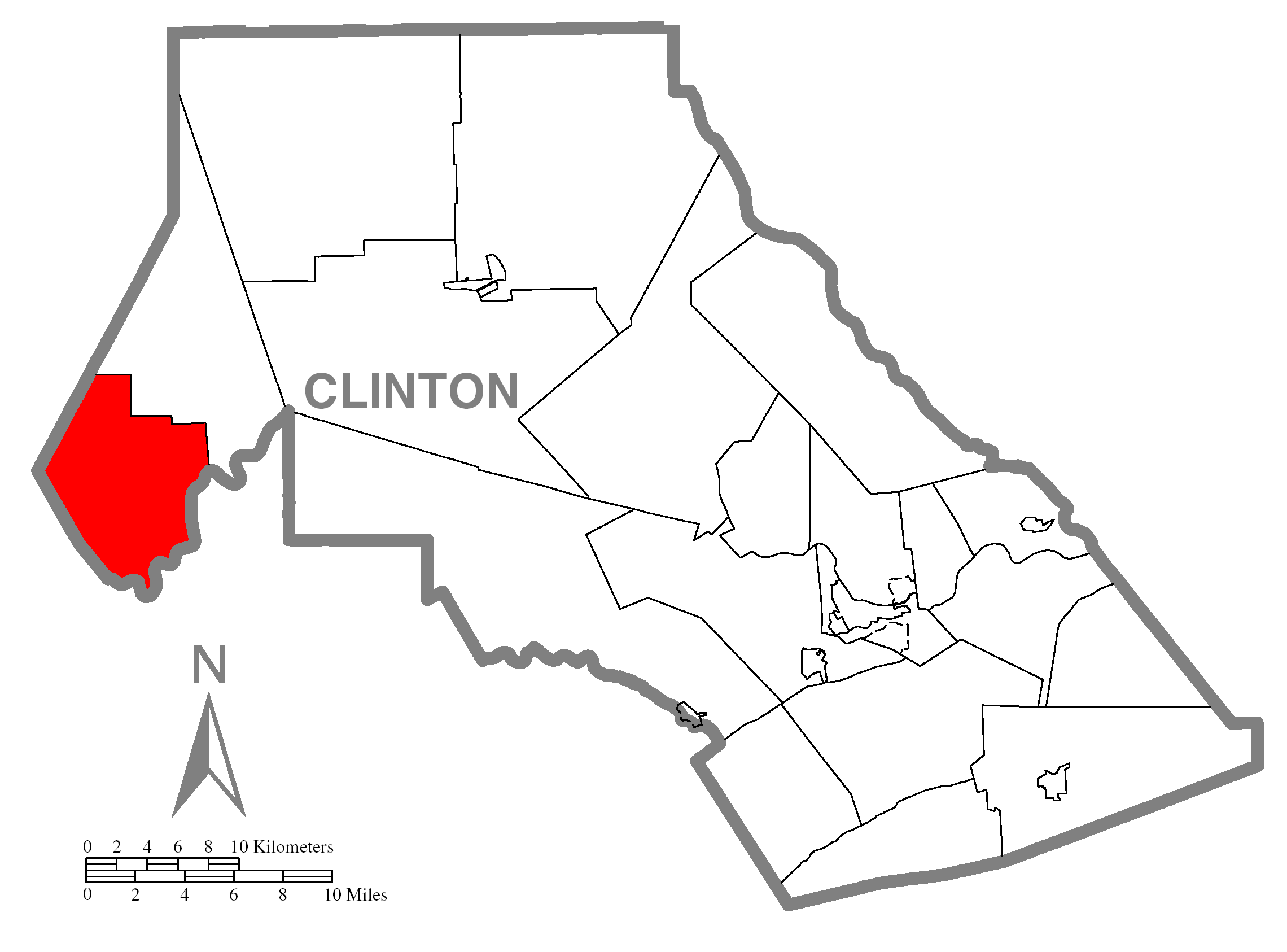 A map of Clinton County showing West Keating Township, Pennsylvania (alternate) highlighted on the map.